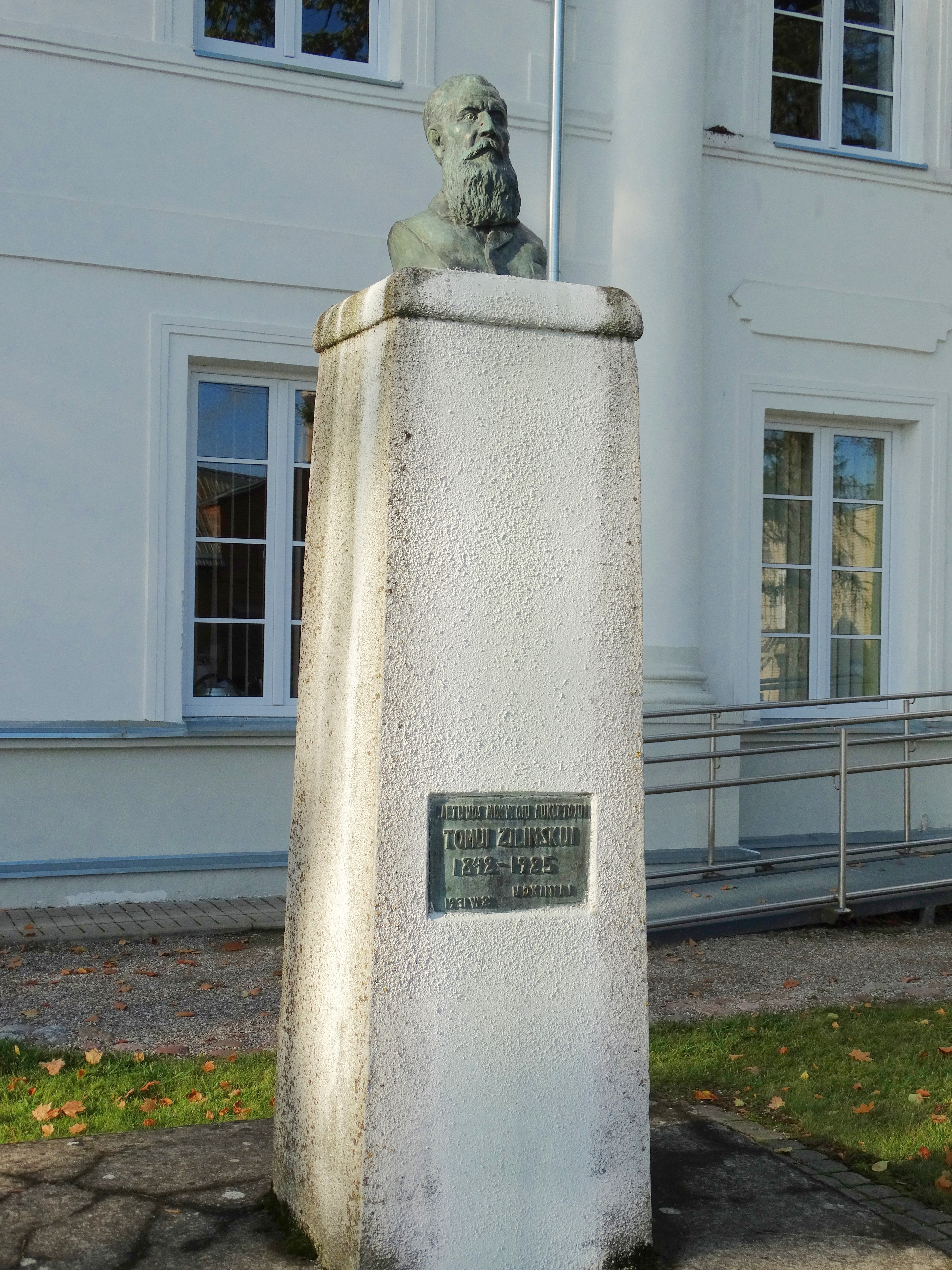 In memory of Tomas_Žilinskas, Veiveriai, Prienai district, Lithuania